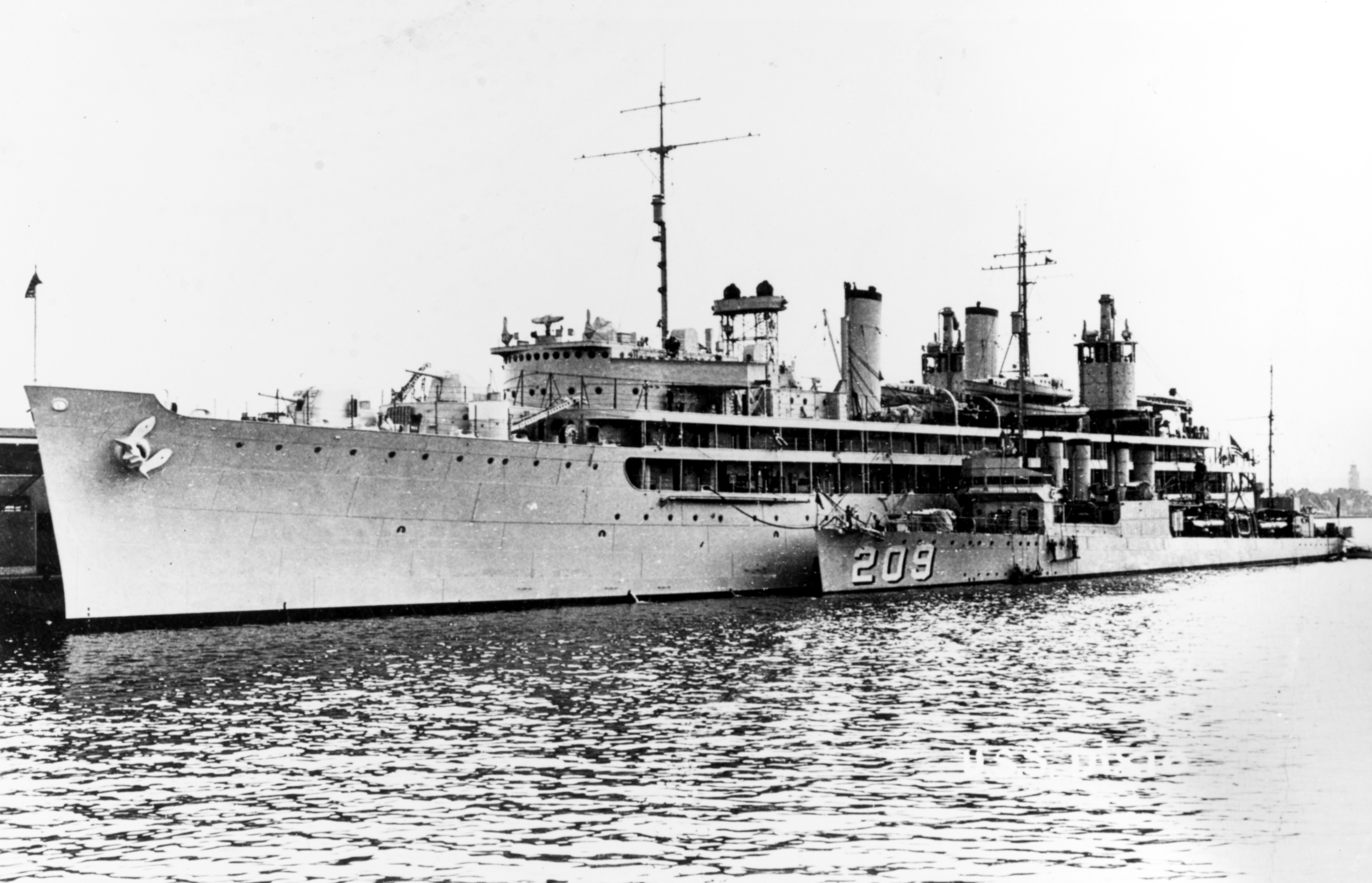 The U.S. Navy destoyer tender USS Dixie (AD-14) in 1940 with the destroyer USS Long (DD-209) alongside. Dixie was commissioned on 25 April 1940 and sailed from Norfolk, Virginia (USA), on 20 June 1940 for Pearl Harbor to serve the destroyers of the Battle Force until October, when she cleared for the West Coast and similar operations at San Diego, California (USA). Long was converted to destroyer minesweeper and reclassified DMS-12 on 19 November 1940.